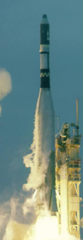 Launch of the KeyHole-7 16 satellite on board of Atlas Agena D LV.